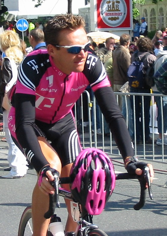 Mario Aerts Team Telekom Germany Frankfurt am Main Rund um den Henninger-Turm